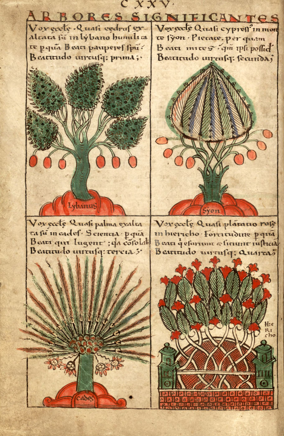 Trees symbolizing the Eight Betitudes. Liber Floridus, Ghent, fol. 139